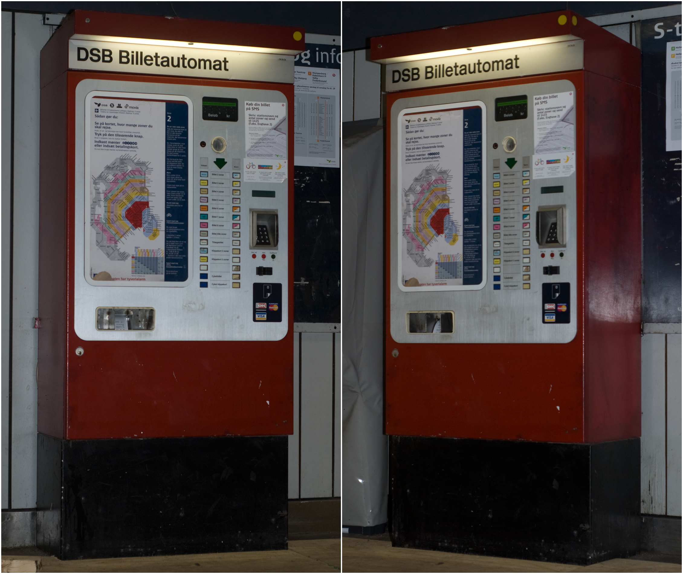 Ticket vending machine operated by DSB in Copenhagen area